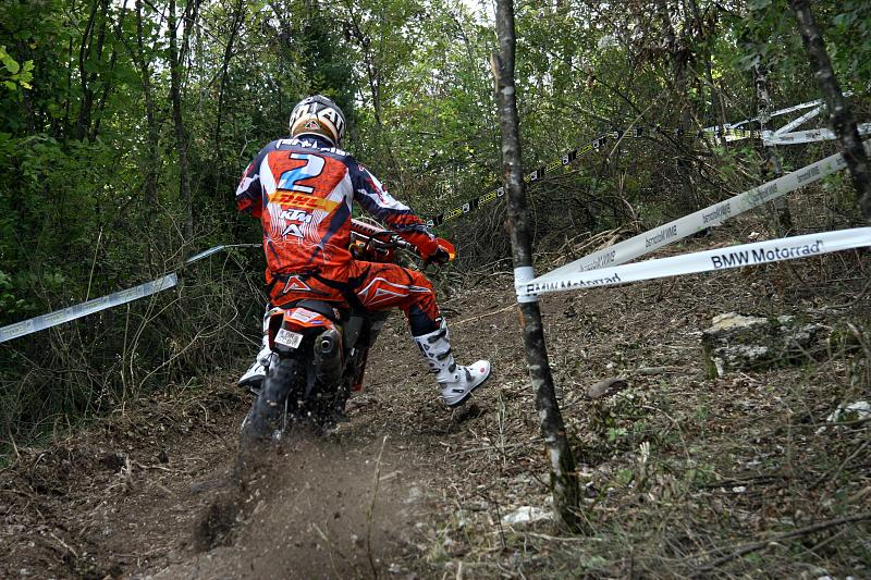 Marko Tarkkala riding his KTM E3 bike at the 2008 World Enduro Championship Grand Prix of Italy in Piediluco.